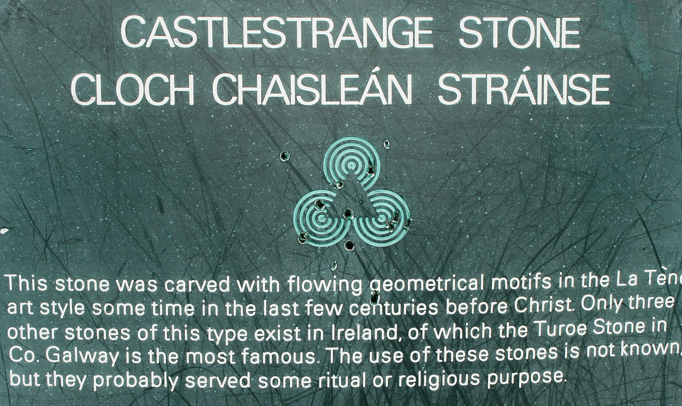 Reference to the Turoe stone at Castlegrange, Athleague, County Roscommon